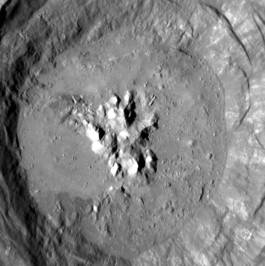 Interior of Fonteyn crater on Mercury. MESSENGER NAC image. Shows detail of central peak complex and texture of impact melt on crater floor. Emission Angle: 26.3 Incidence Angle: 62 Latitude: 32.8 Longitude: 95.6 Phase Angle: 35.7